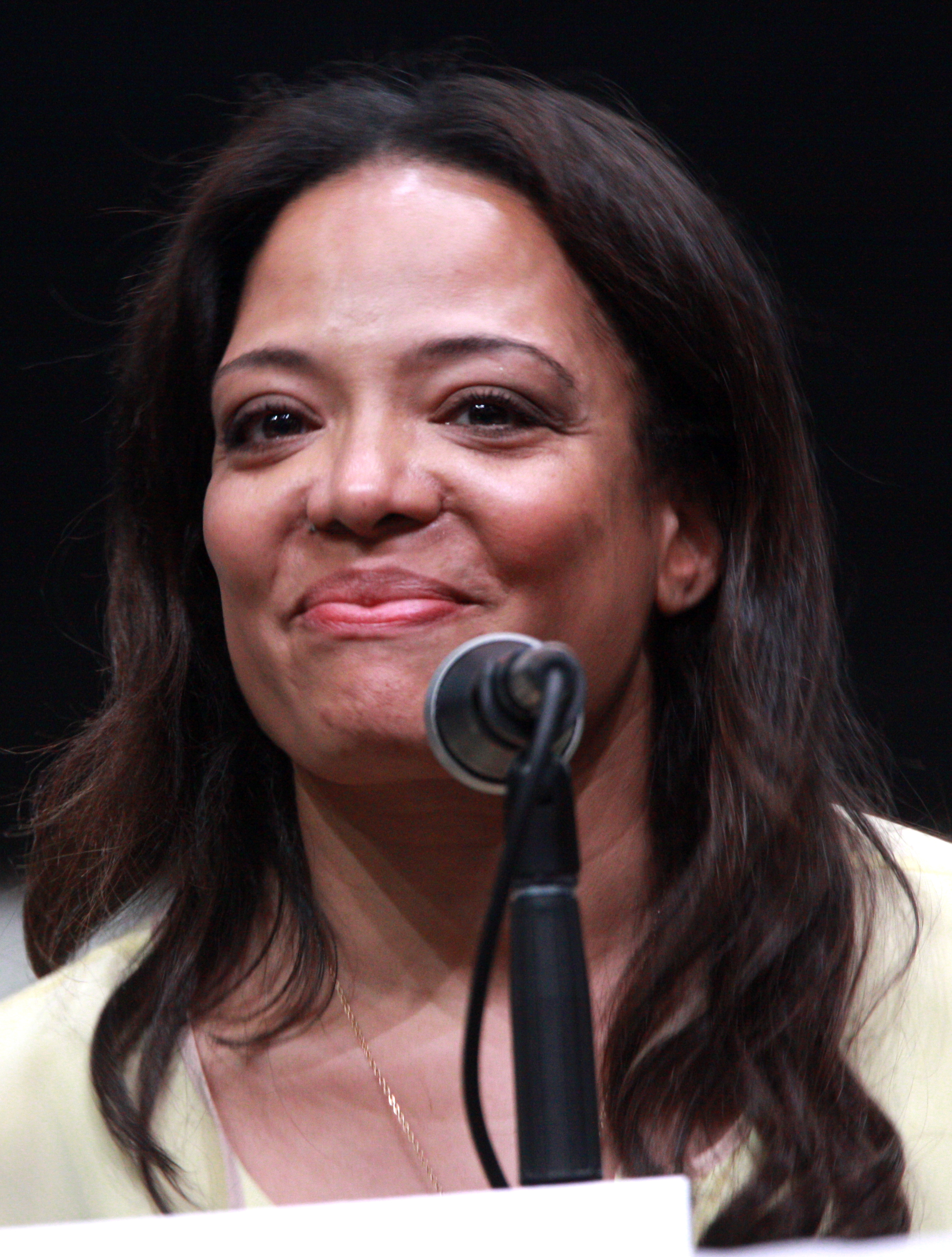 Lauren Vélez speaking at the 2013 San Diego Comic Con International, for "Dexter", at the San Diego Convention Center in San Diego, California.